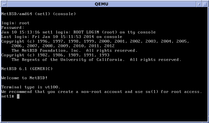 NetBSD 6.1 Console login and welcome message. Running in a QEMU VM.